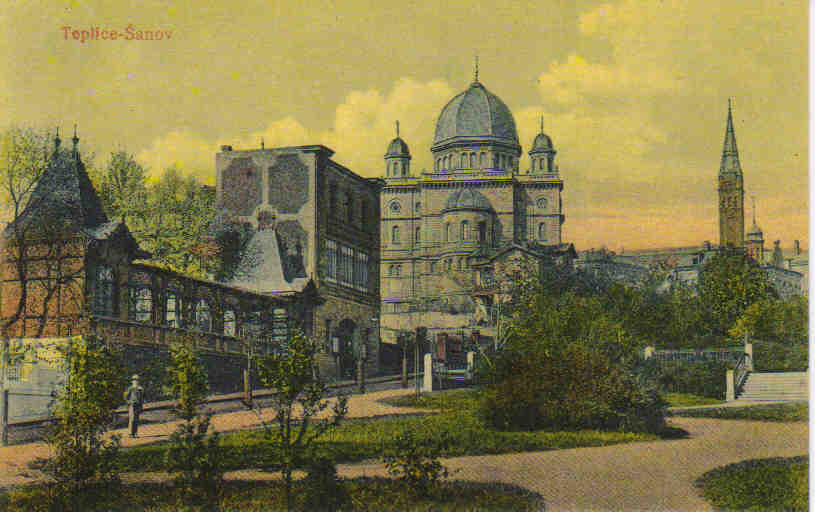 Teplice synagogue